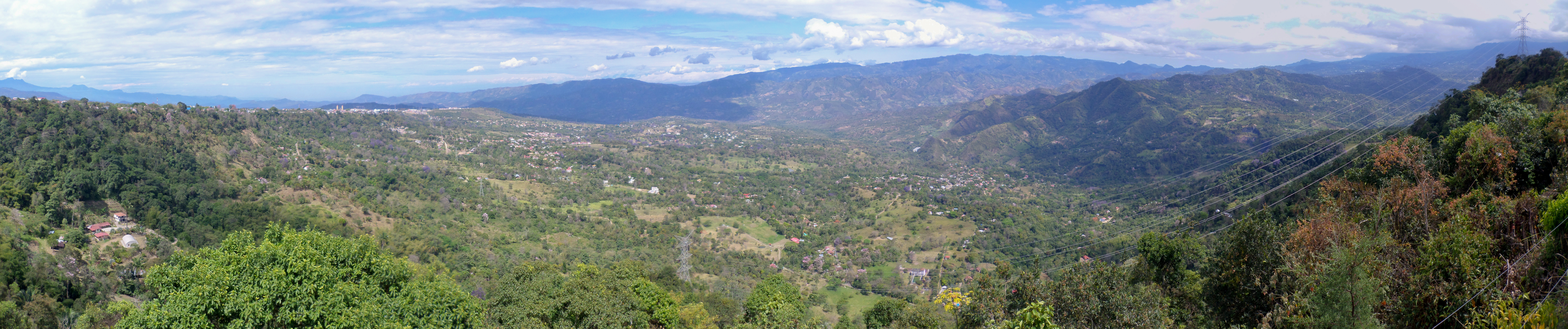 La Mesa, Cund - Colombia Pan